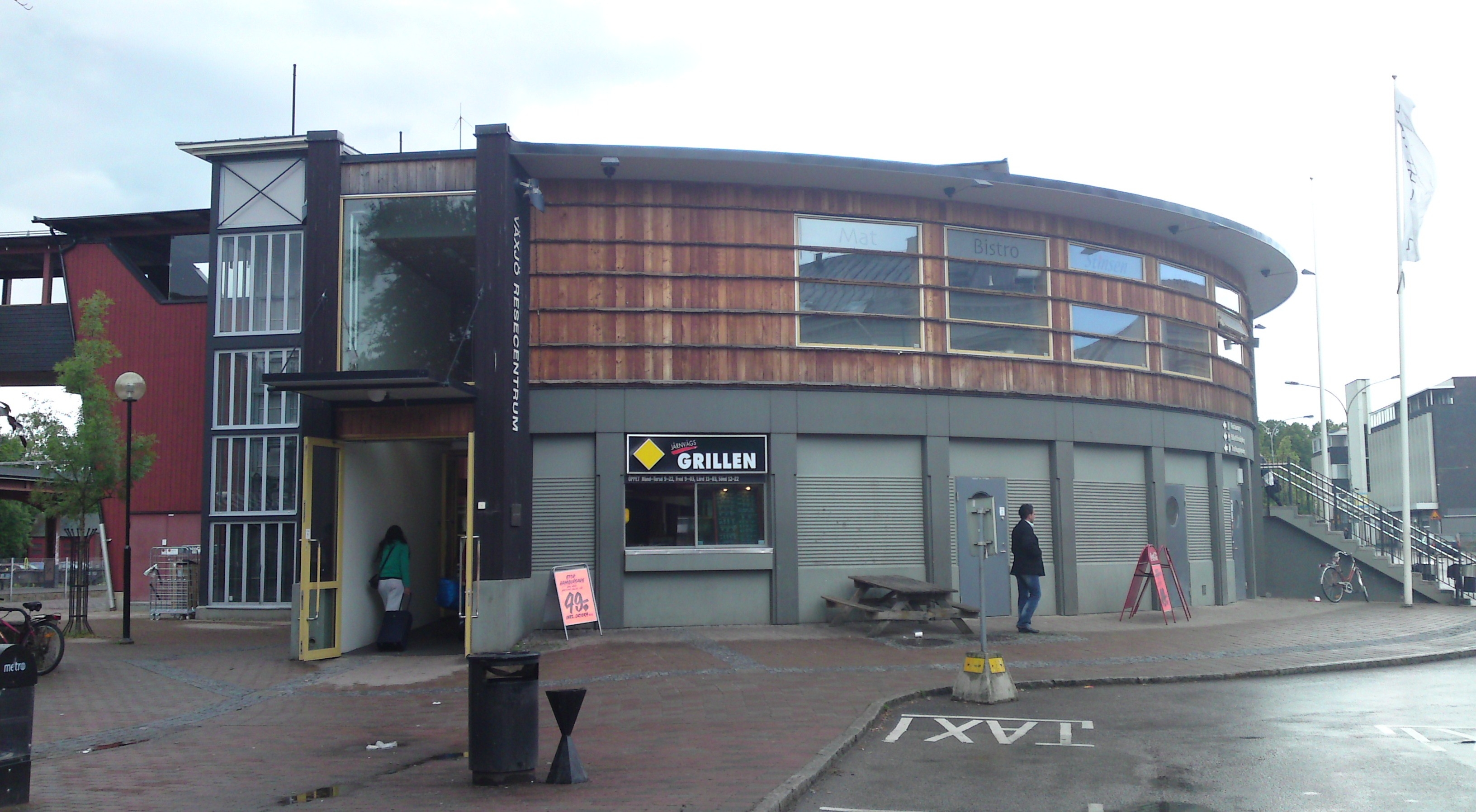 Växjö new station, Småland, Sweden